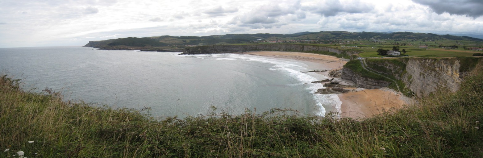 The cliffs and beaches east of Santander, Cantabria, Spain.